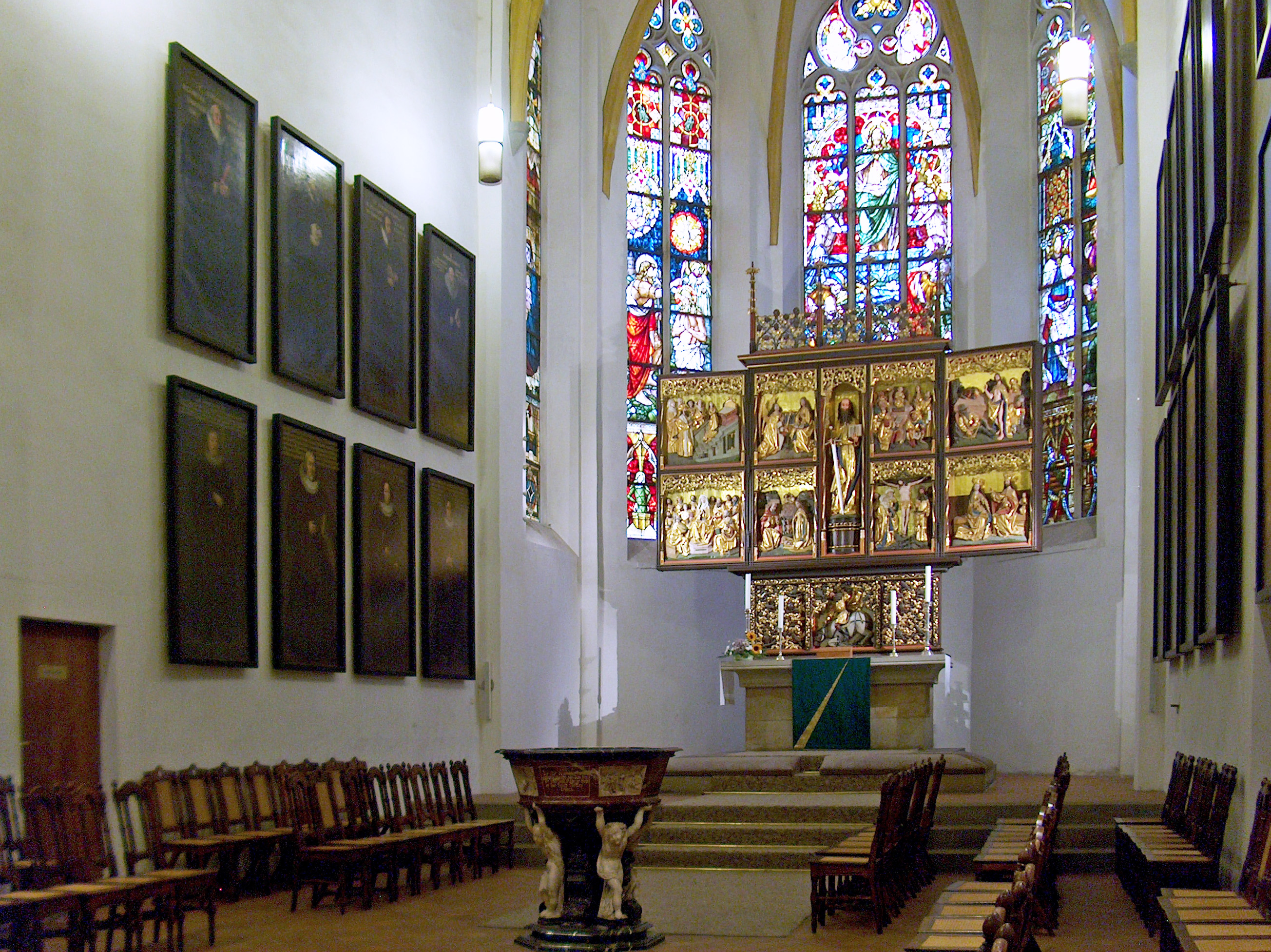 St. Thomas' Church, leipzig (choir).